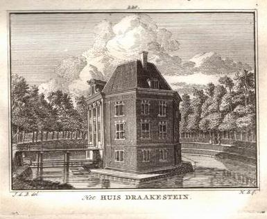 Drakestein Castle, Baarn (Netherlands); engraving by Hendrik Spilman after Jan de Beijer